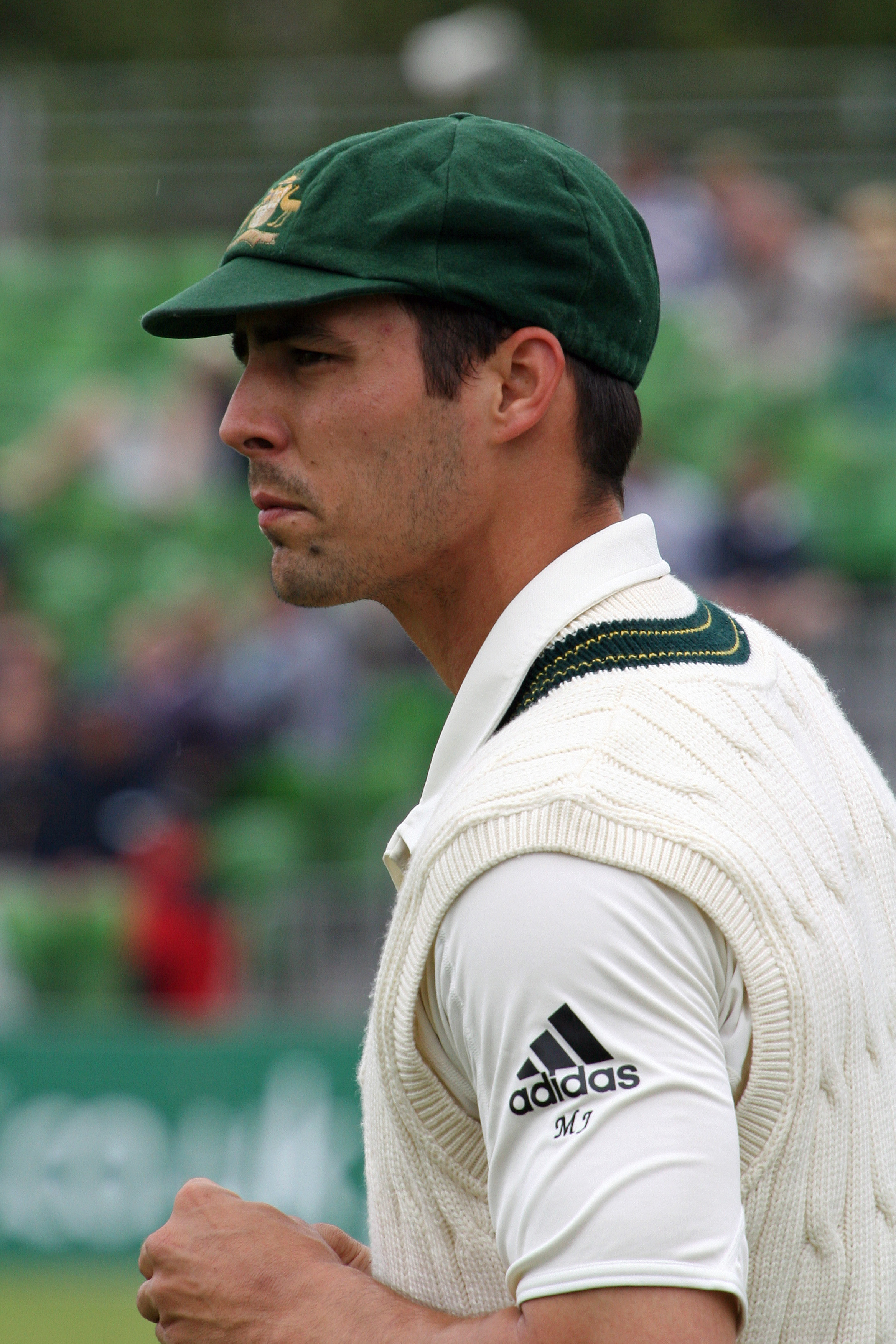 Mitchell Johnson in profile during a tour match against Northamptonshire during the 2009 Ashes